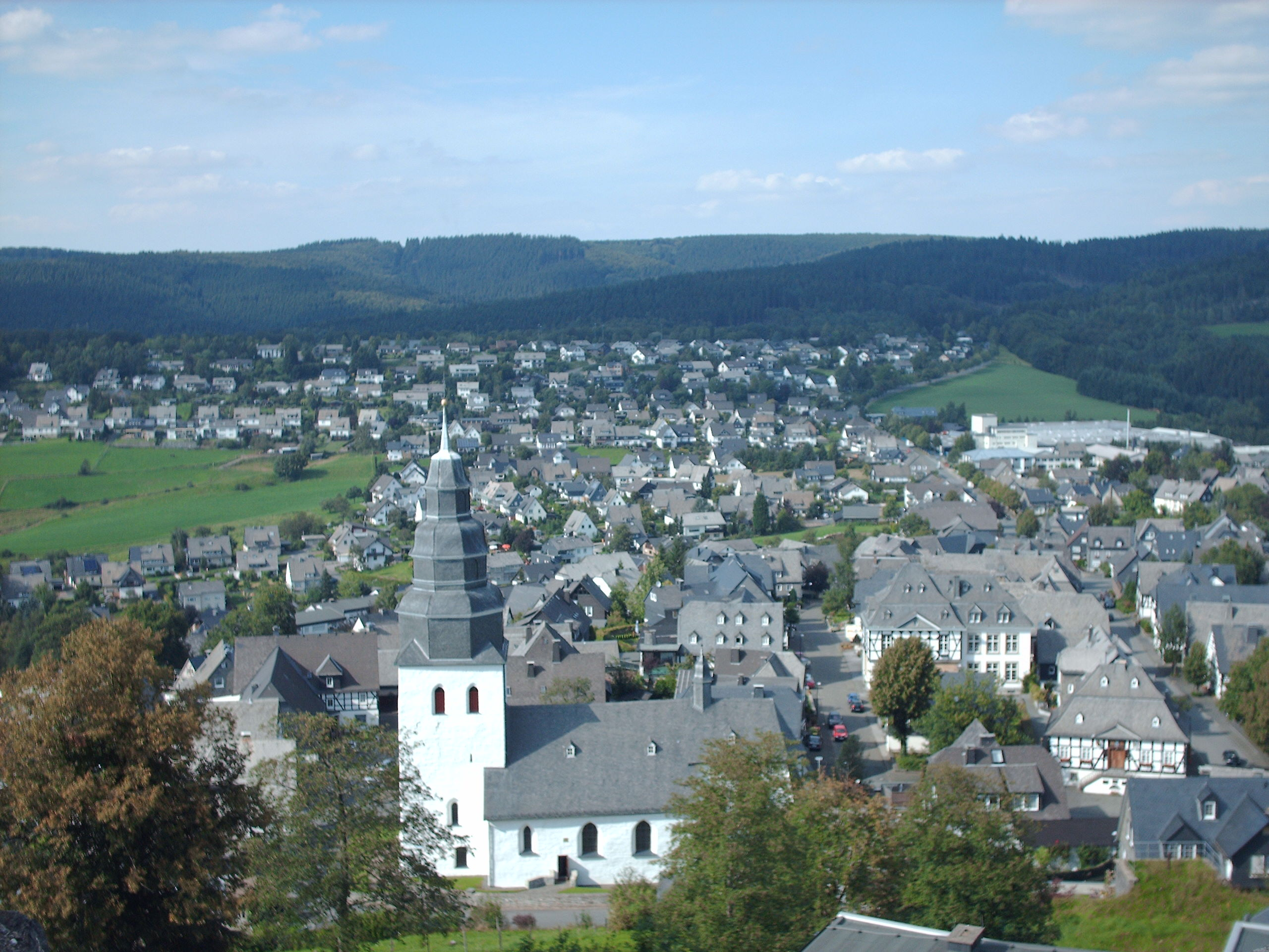 View on Eversberg, Meschede, Germany check usage